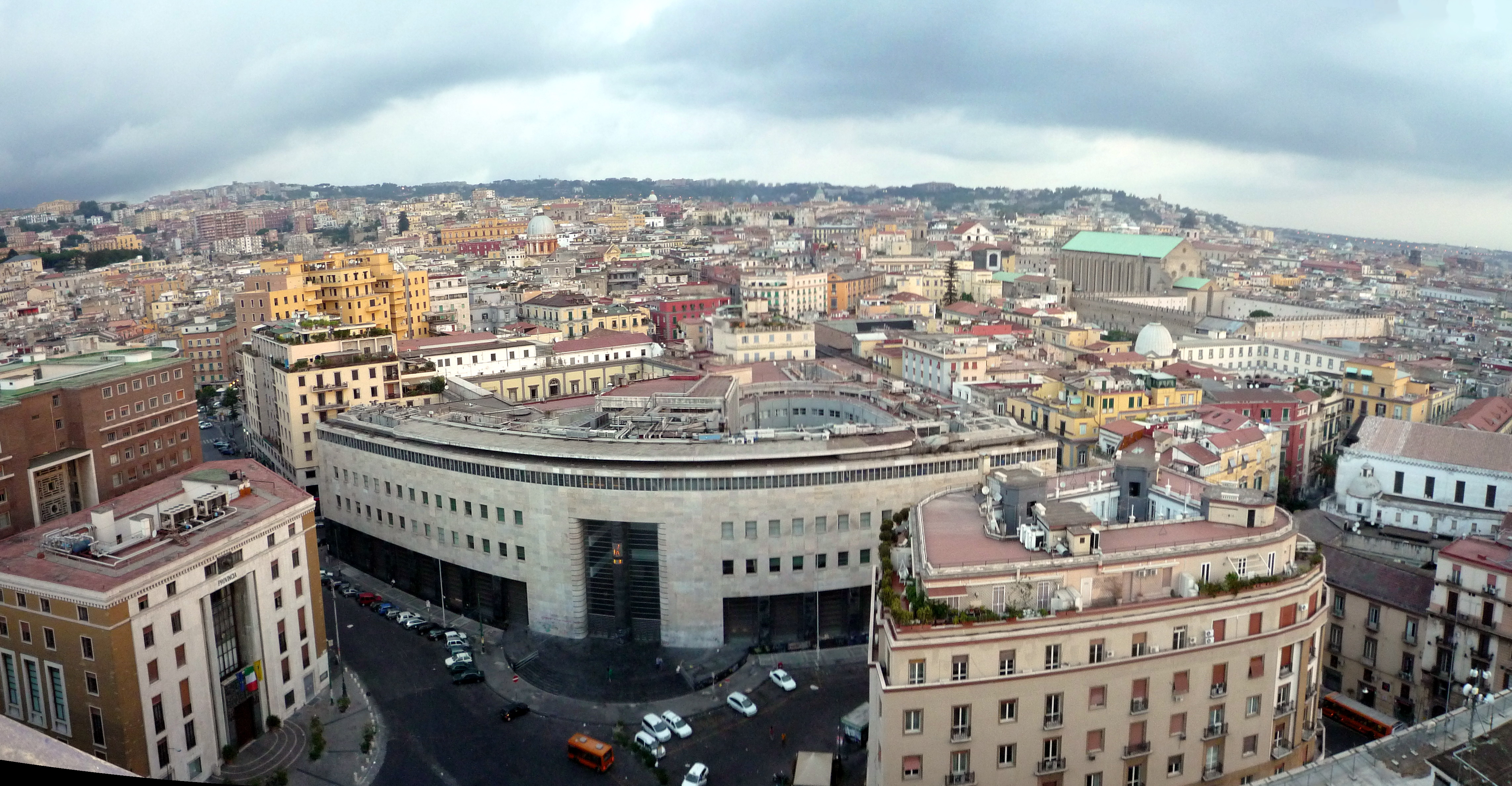 Napoli view from Jolly Hotel